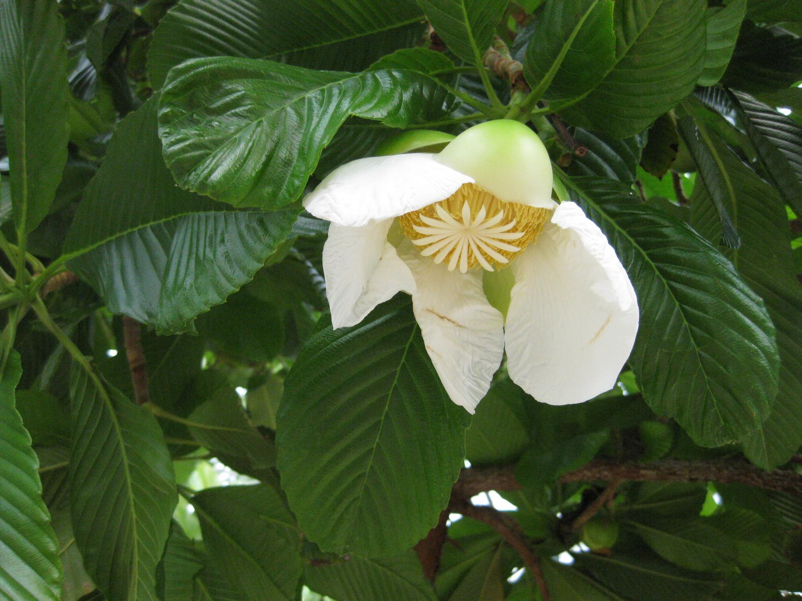 Photographed at Huntington Gardens (Los Angeles, California) in August